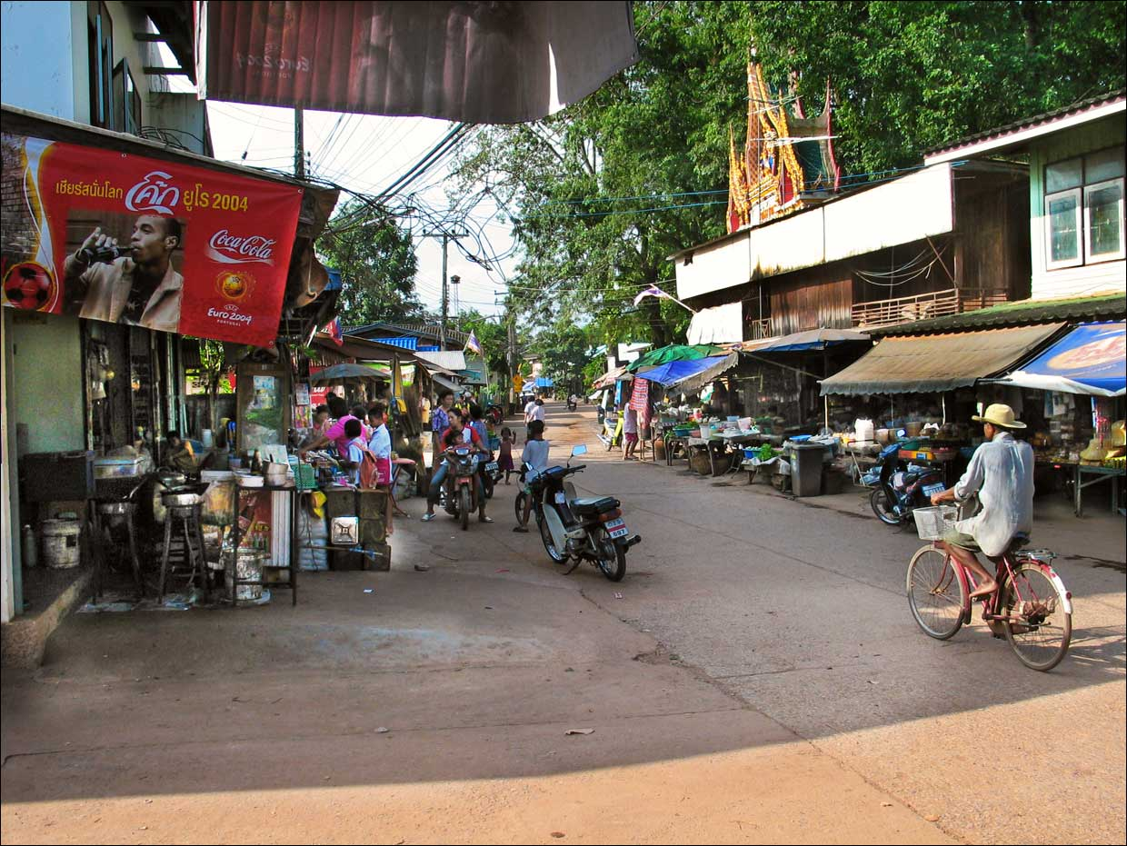 Streetscene in Pak Phli, Nakhon Nayok province, central Thailand.